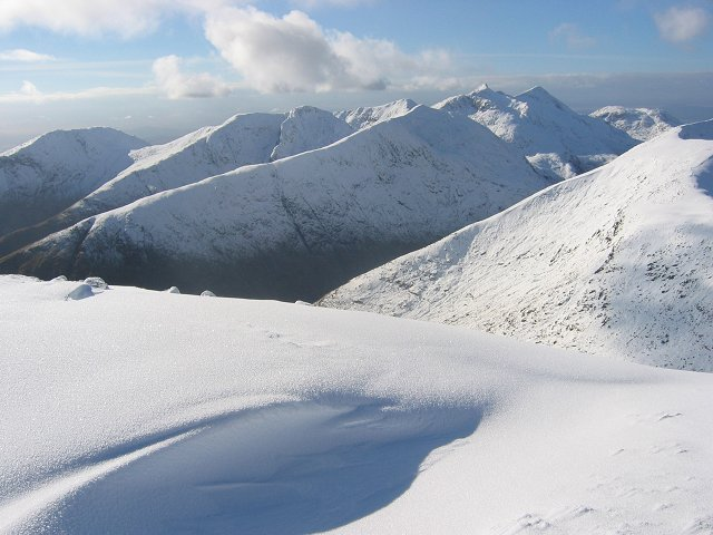 Drifts, Beinn Eunaich. Snowdrift by the summit and a wonderful view of most of the Cruachan tops including the spire like highest summit.